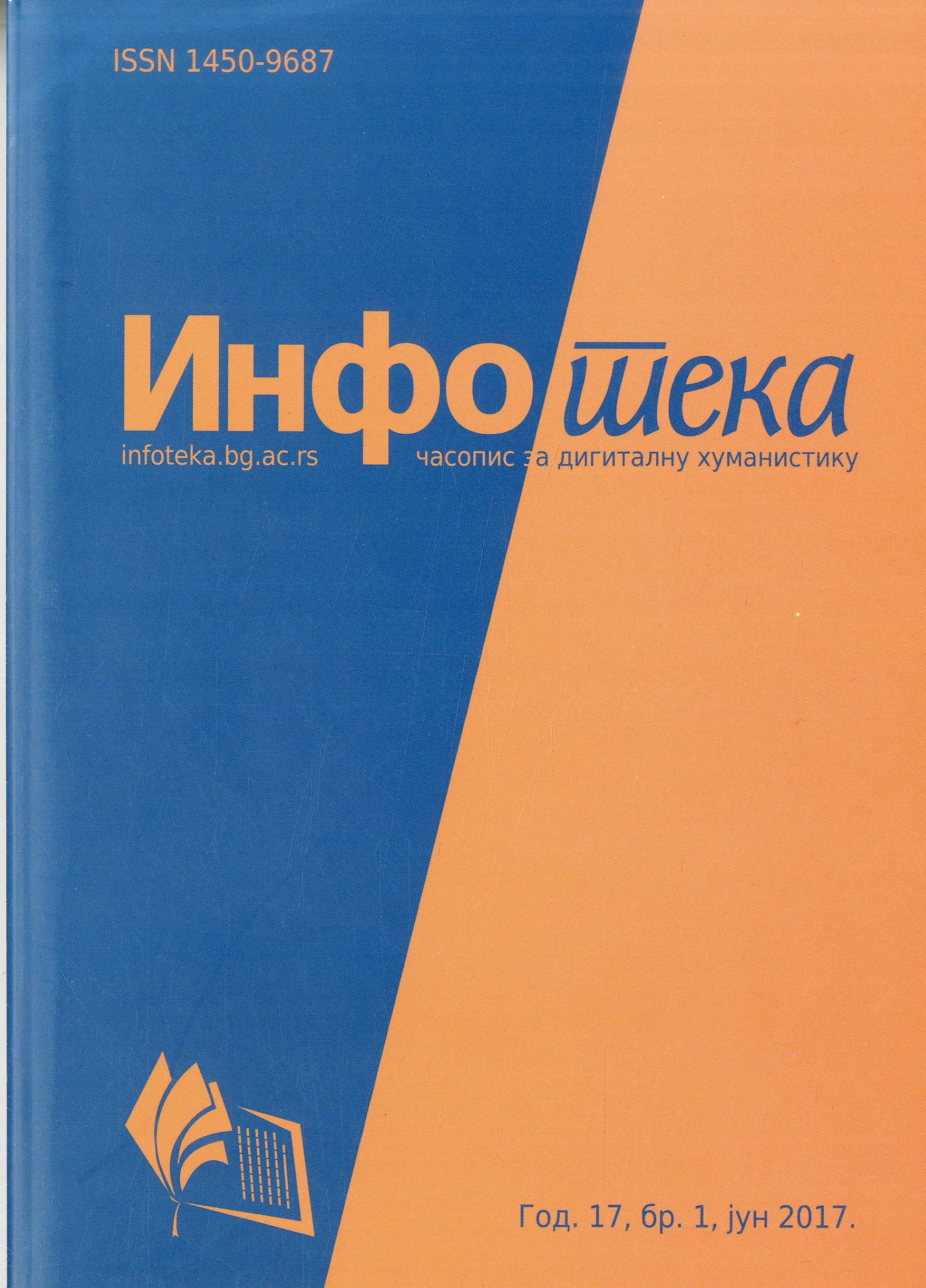 Cover of journal